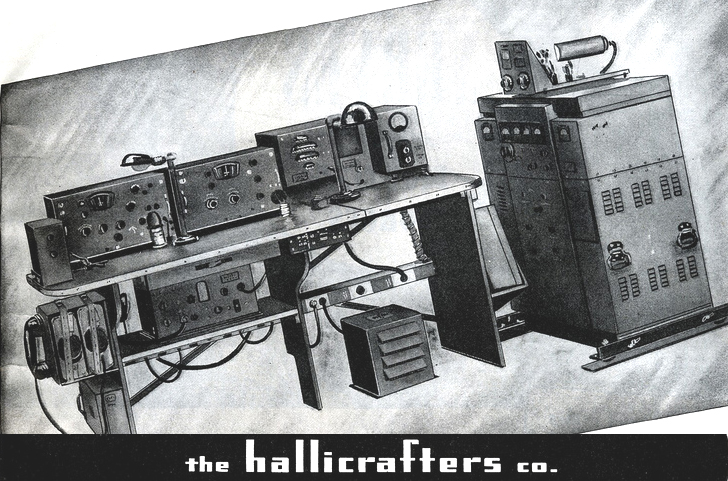 Illustration of SCR-299 radio set interior. Scan of defunct Hallicrafters company magazine ad from defunct electronics magazine, May 1942.